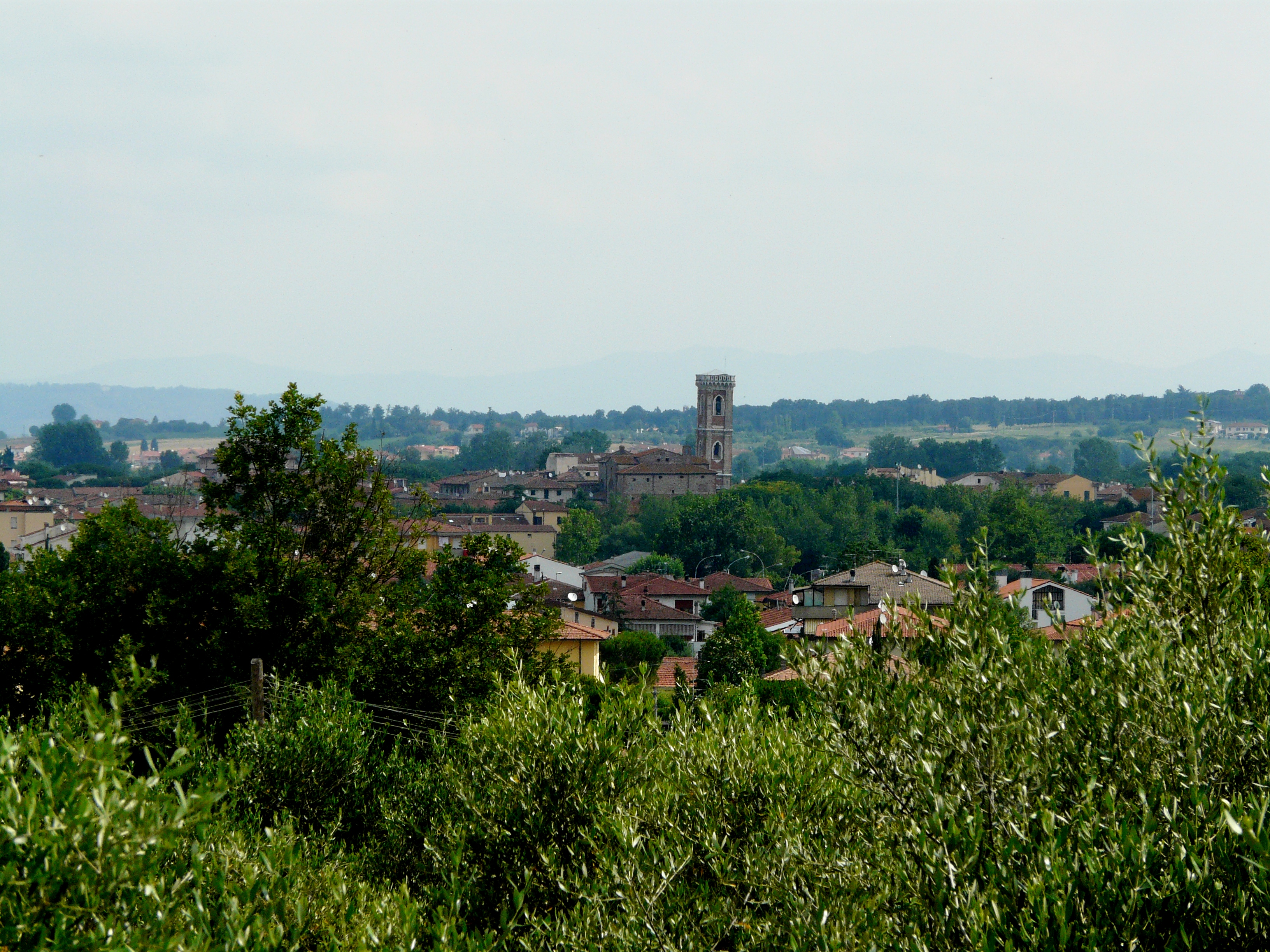 Ponsacco - Italy